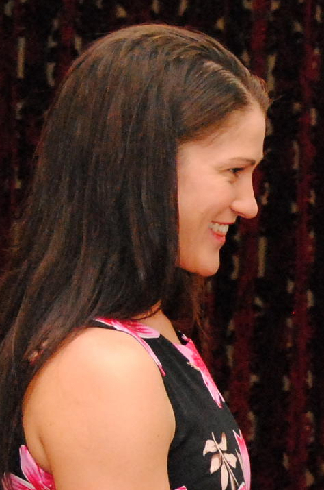 Laura Fairweather, of South Catlins, at her investiture as a Member of the New Zealand Order of Merit, for services to cycling, on 24 May 2013